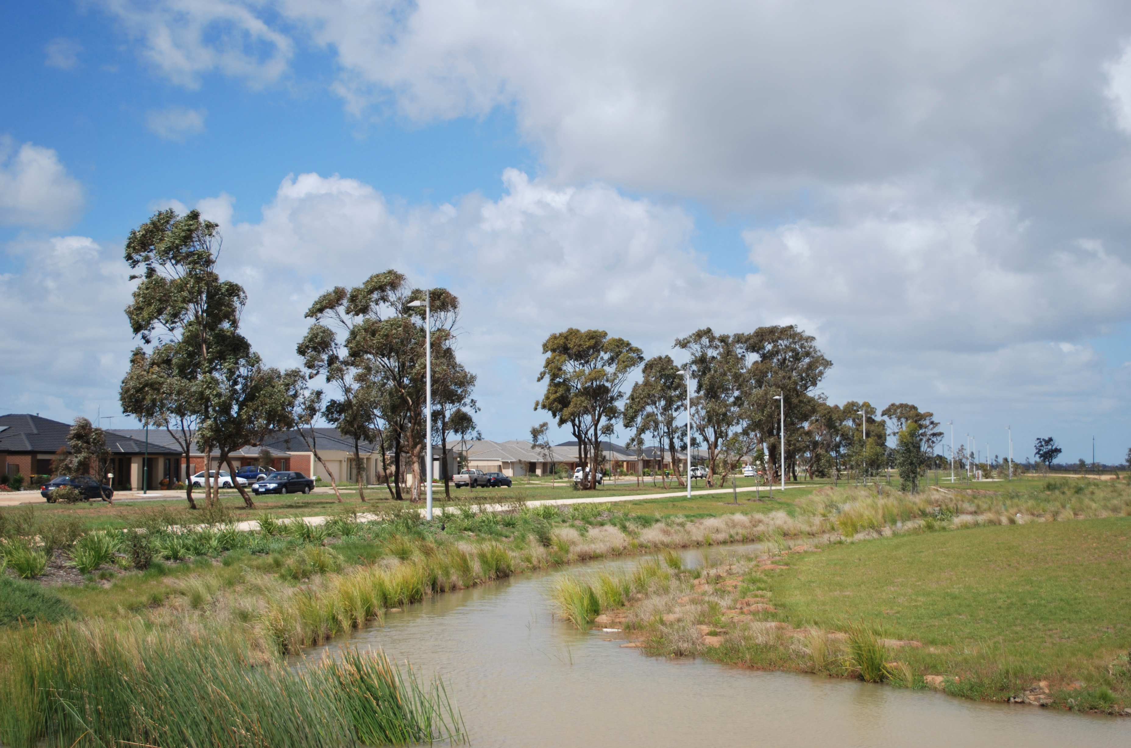 Looking towards Clarkes Road over a small reserve in Brookfield, Victoria